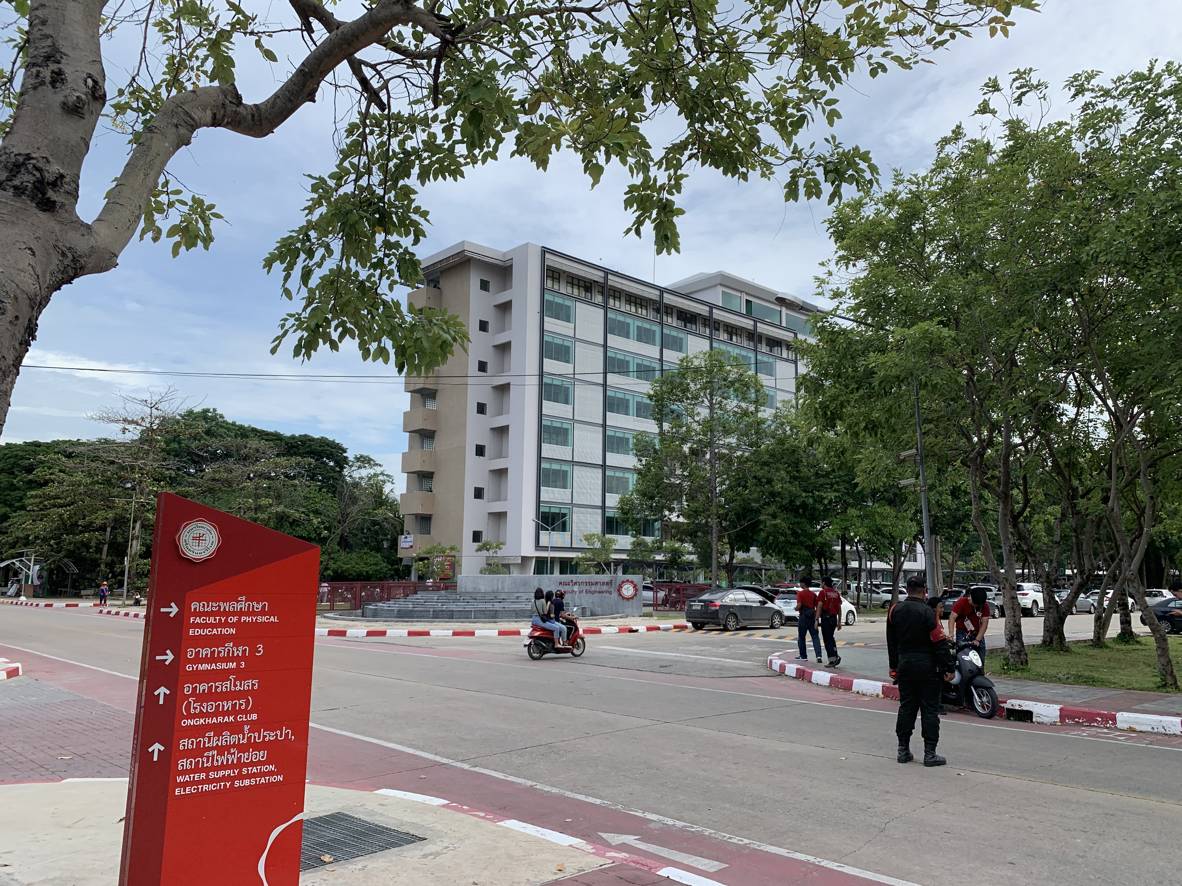 Faculty of Engineering SWU Ongkharak